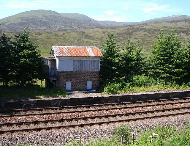 Former station, Dalnaspidal. The remains of the platform can be seen clearly next to this structure, which was probably the signal box. The station closed in May 1965. The line remains in use, being the route north to Inverness.